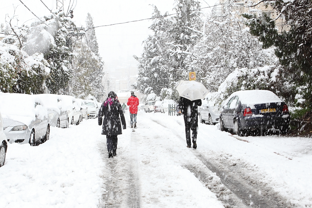 Jerusalem Snow Tourists 2013, Jerusalem, Katamon, 25 David Shimoni Street, Snow 2013